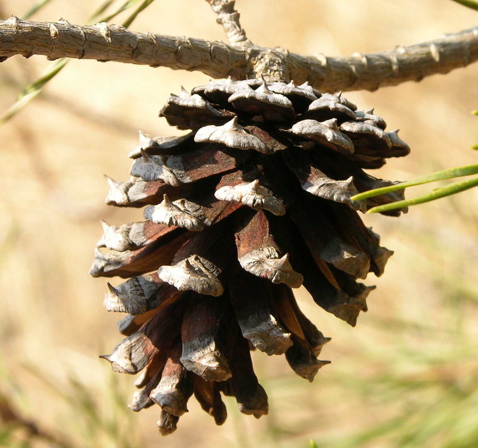 Photograph of the Scrub Pineen (Pinus virginiana en ). Photo taken at the Tyler Arboretum where it was identified.